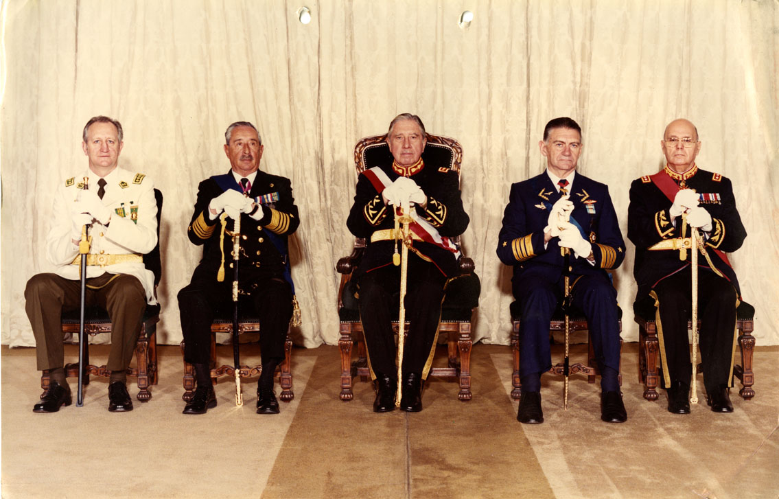 From left to right: Stange Oecklers, Rodolfo. General Director of Carabineros. Member of the Military Government Board / Merino Castro, José Toribio. Commander-in-Chief of the Chilean Navy. Member of the Military Government Board / Pinochet Ugarte, Augusto. President of the Republic of Chile / Matthei Aubel, Fernando. Commander-in-Chief of the Chilean Air Force. Member of the Military Government Board / Benavides Escobar, César. Representative of the Army in the Military Government Junta